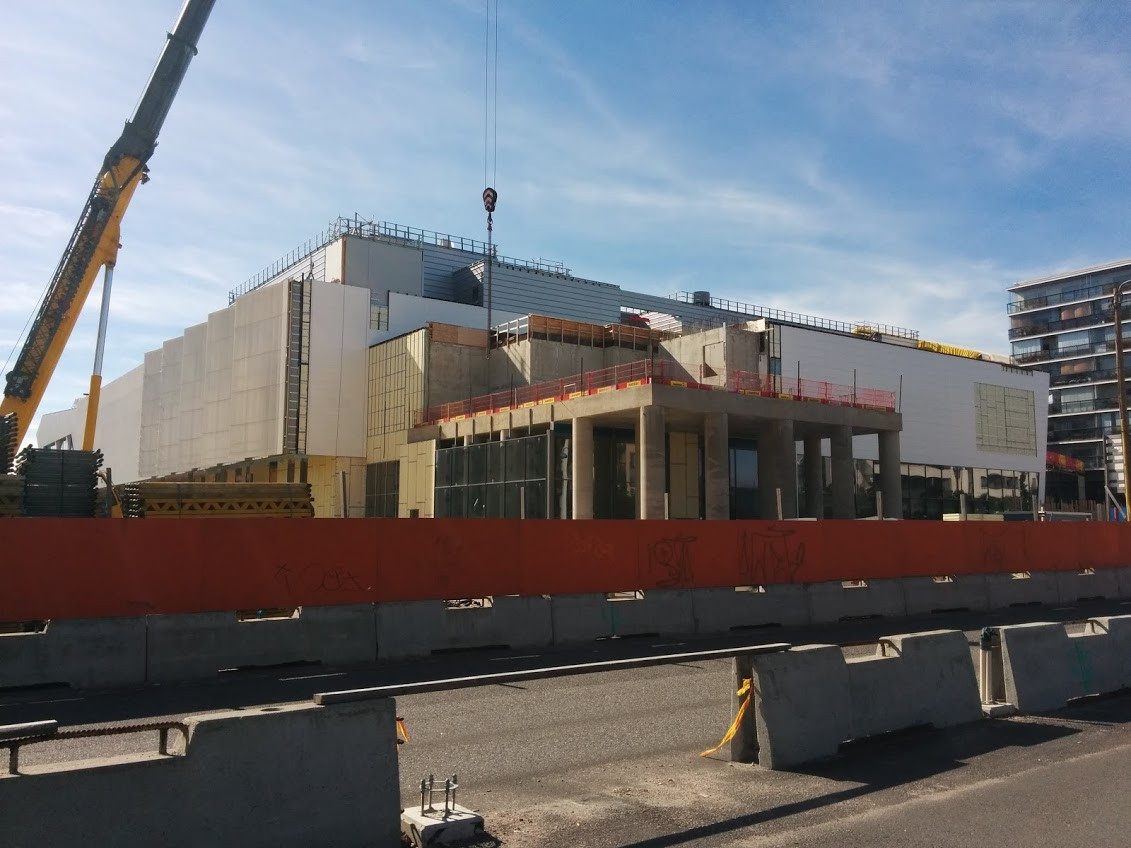 Matinkylä metro station and Iso Omena shopping centre construction yard in August 2015.